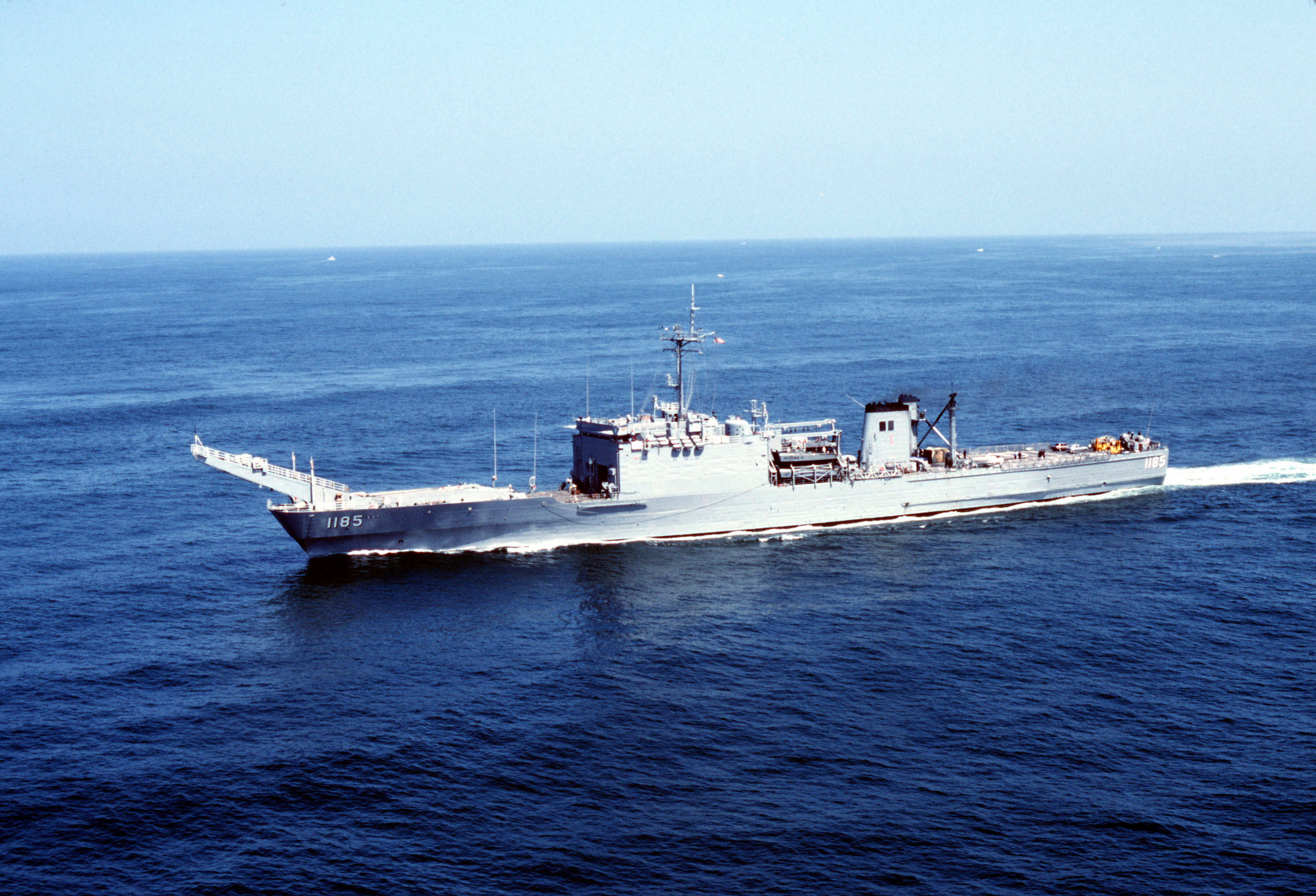 A port view of the tank landing ship USS SCHENECTADY (LST-1185) underway off the coast of San Diego.